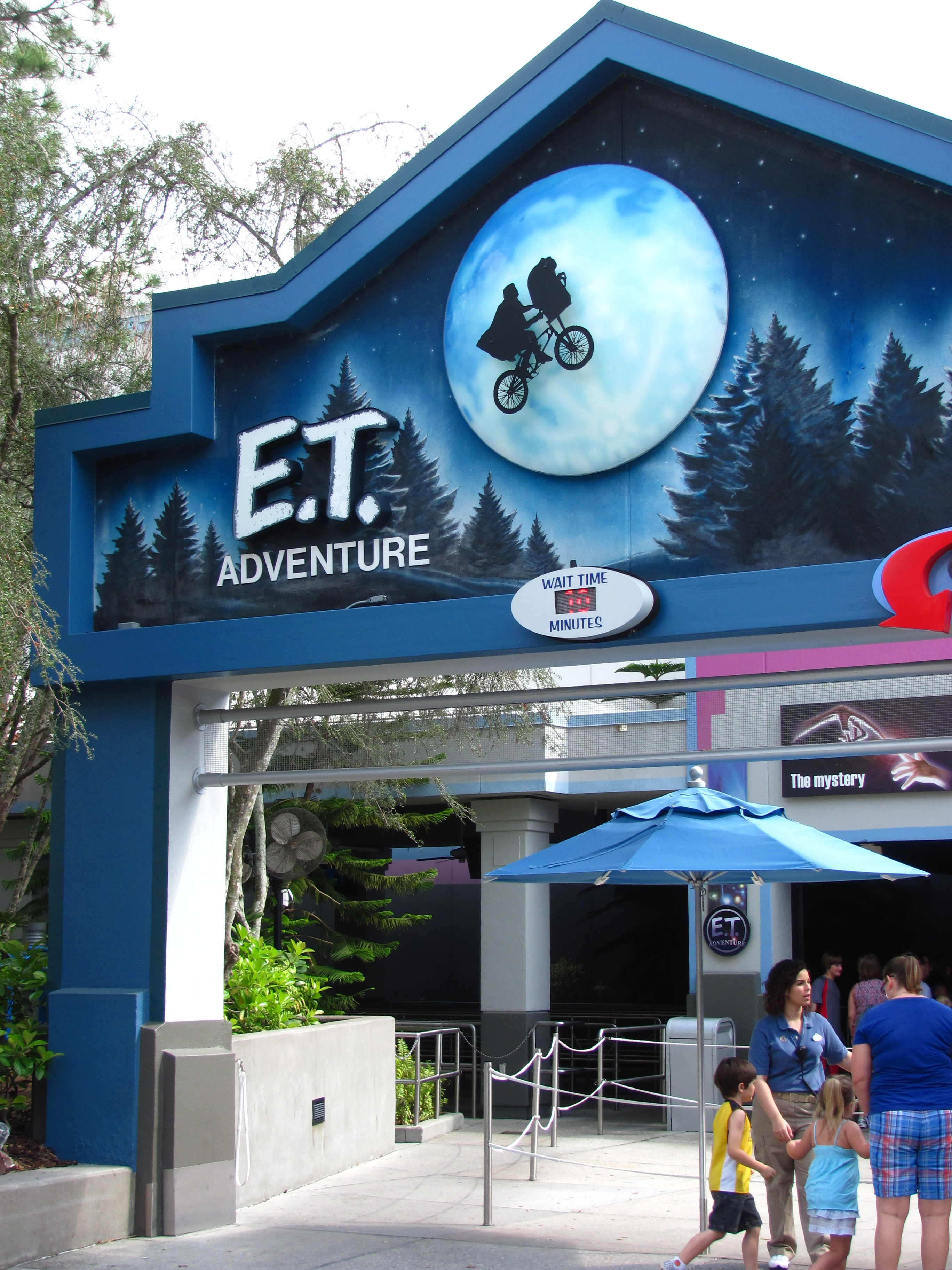 E.T. Adventure